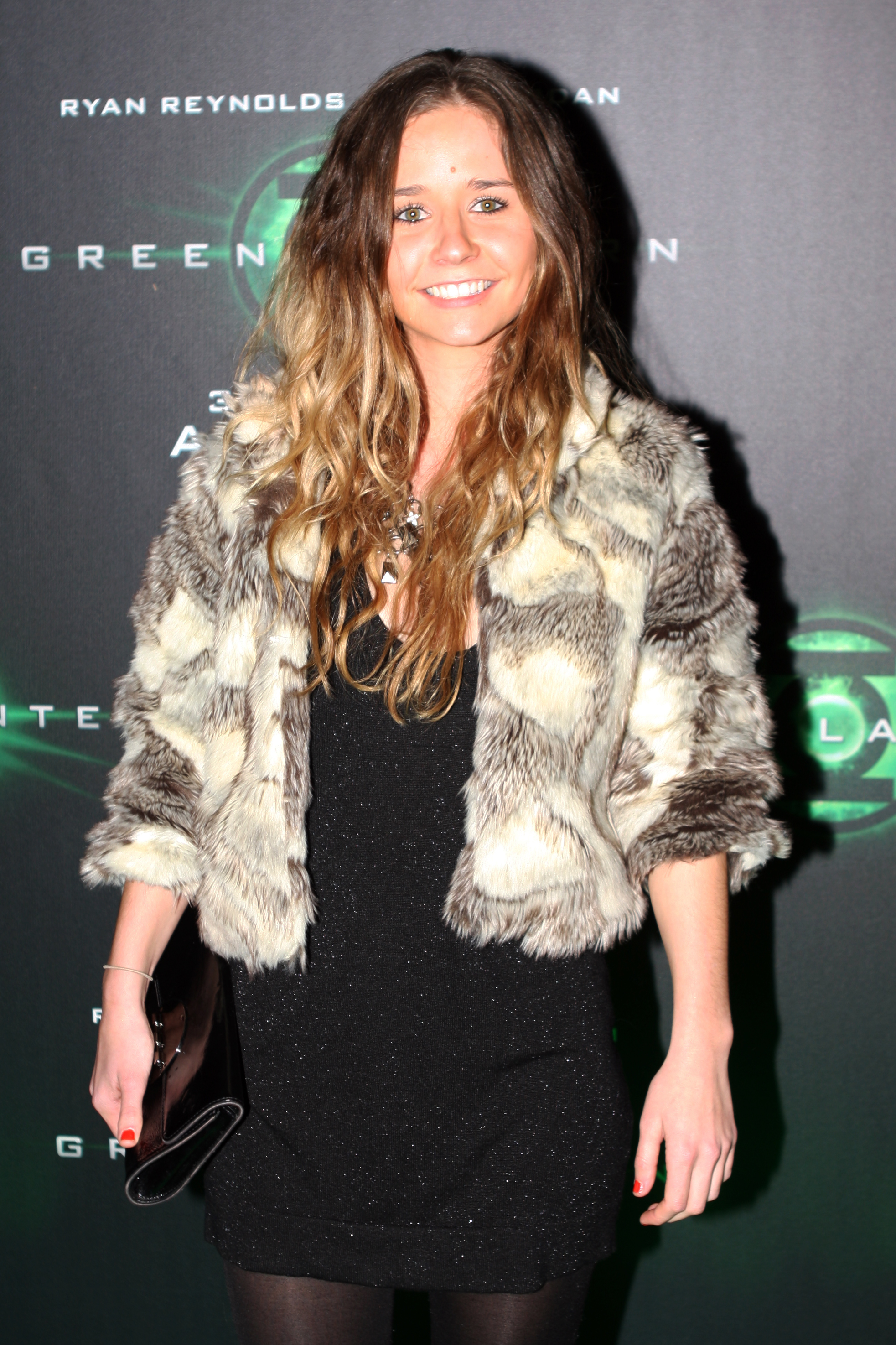 Sophie Luck at the film premiere for The Green Lantern.